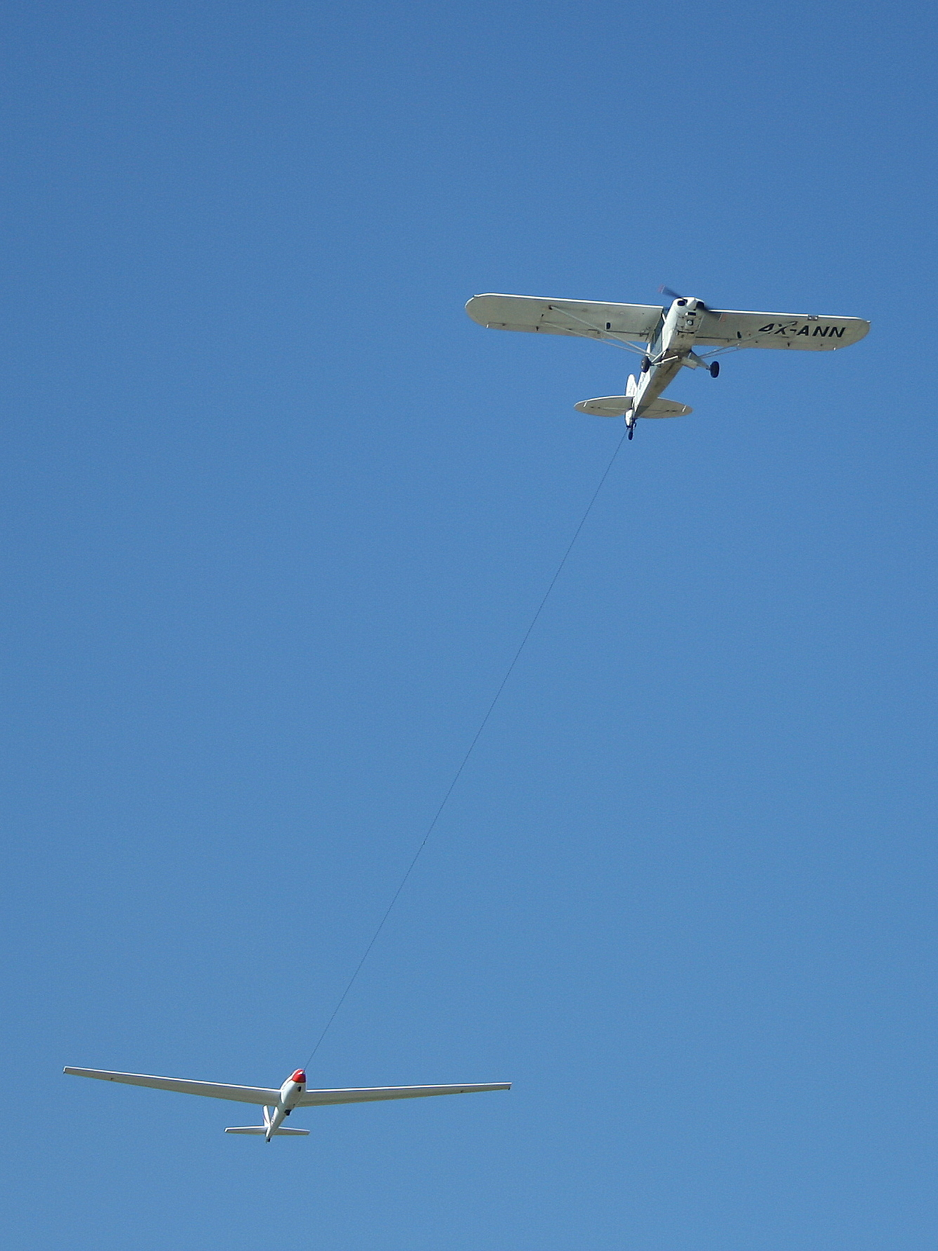 Piper super-cub pulling a glider at Megido airstrip in Israel